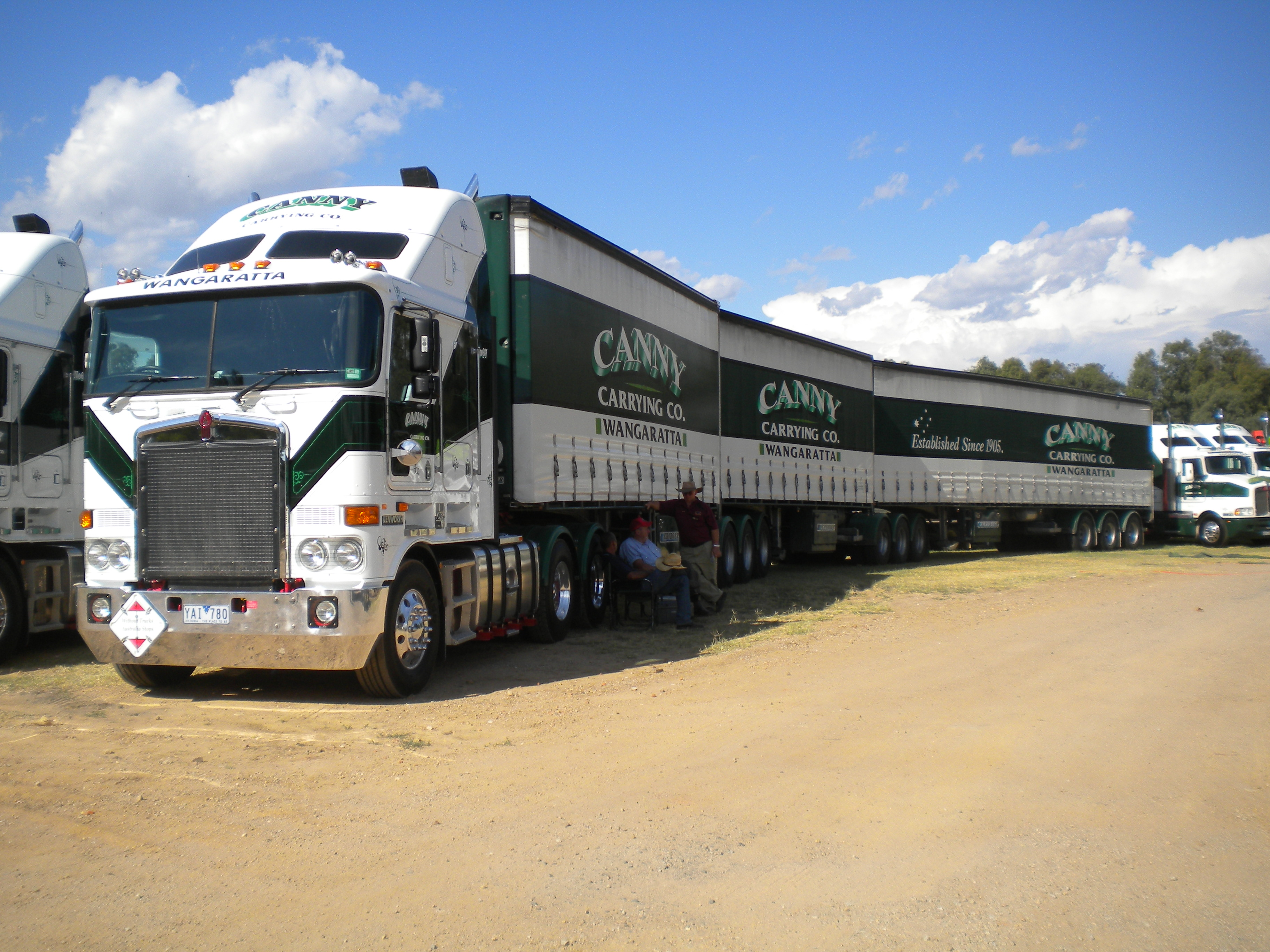 one of Canny Carrying co's K108 "twins" hooked up to a fancy b-triple